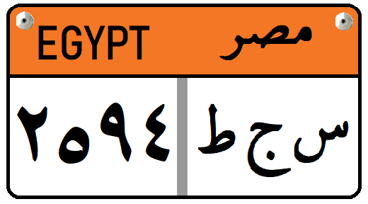 Egypt - License Plate - Taxi